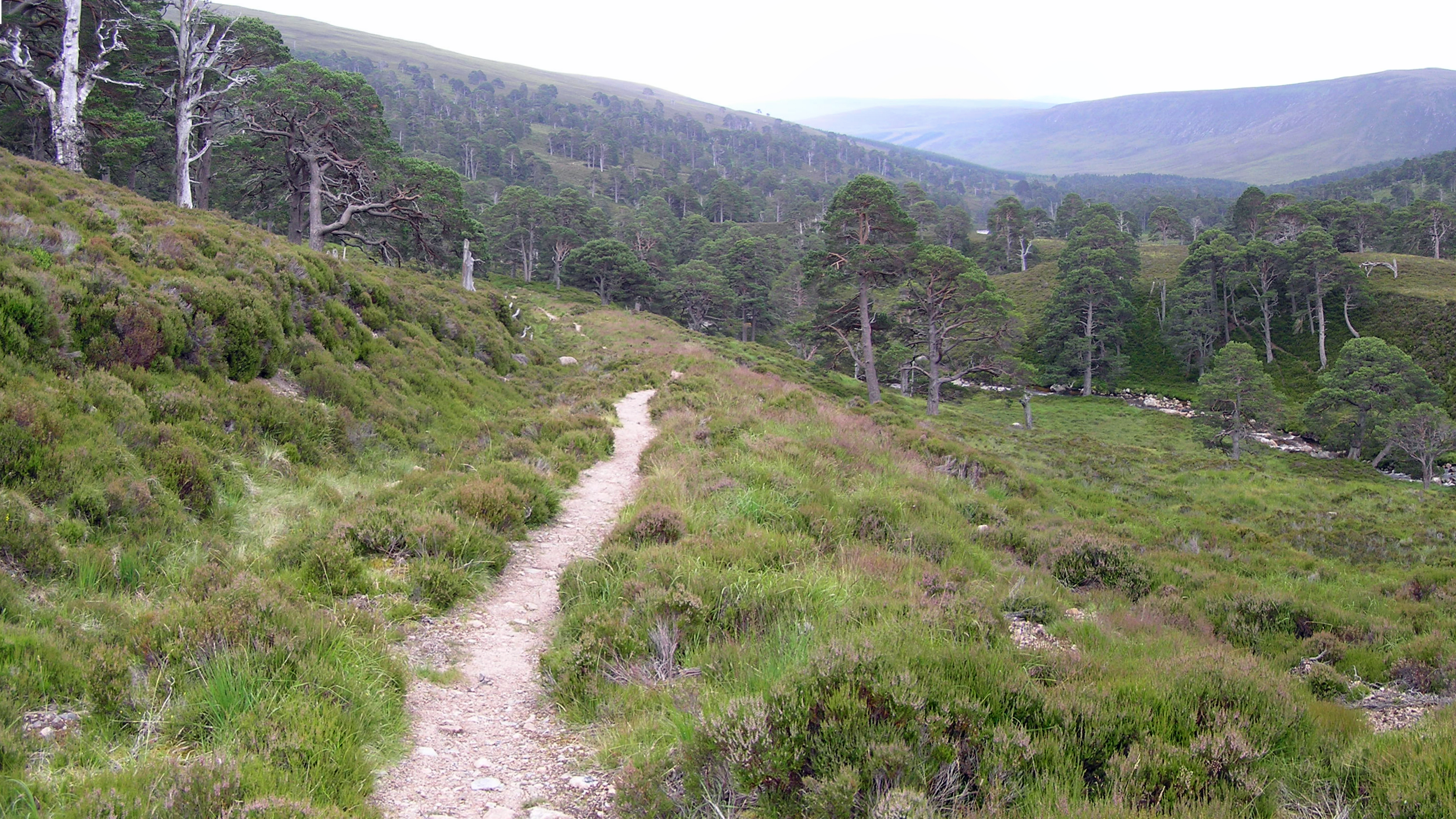 The 'Restored' bulldozed-road in Glen Derry on Mar Lodge Estate (a National Trust for Scotland property) looking towards Derry Lodge. Showing how little effort was made to re-integrate the spoil back into the hillside (as seen) on 22 July 2009